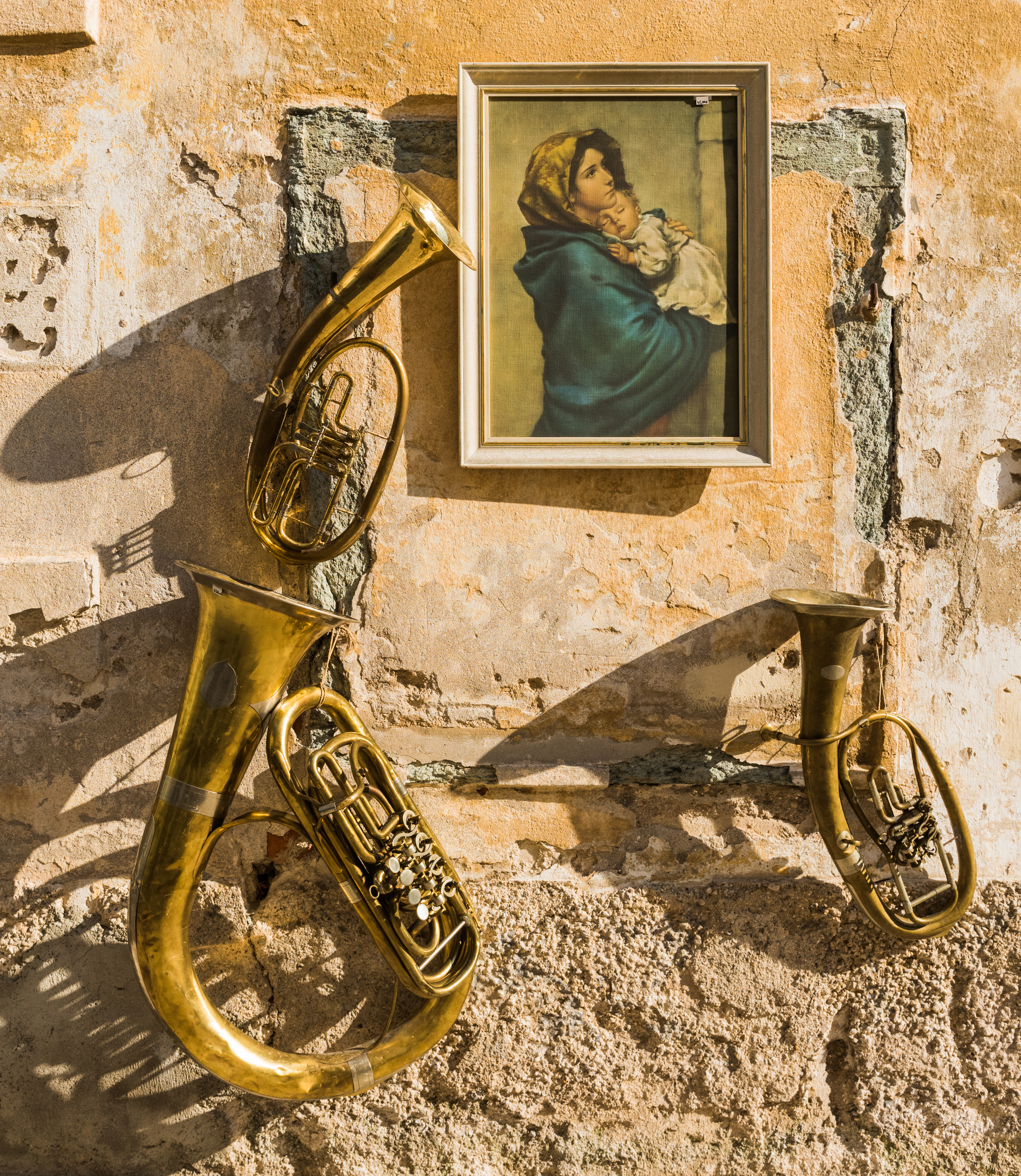 Baritonhorns, exposed on Linhart square in Radovljica, municipality Radovljica, Upper Carniola, Slovenia, EU